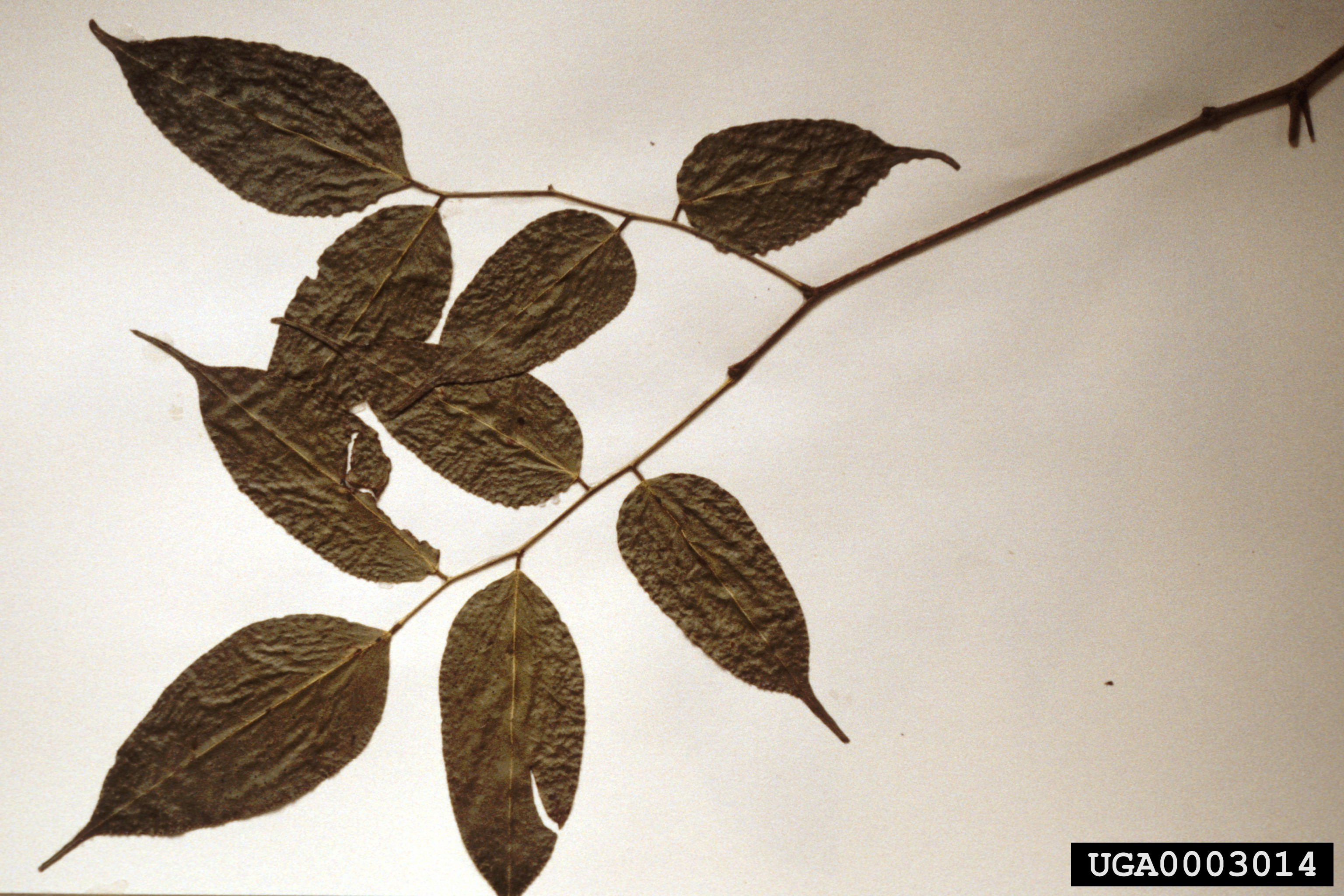 The leaves of a small craibia (Craibia zimmermannii (Harms) Dunn), a common tree of Ngangao forest, Taita Hills, Kenya.